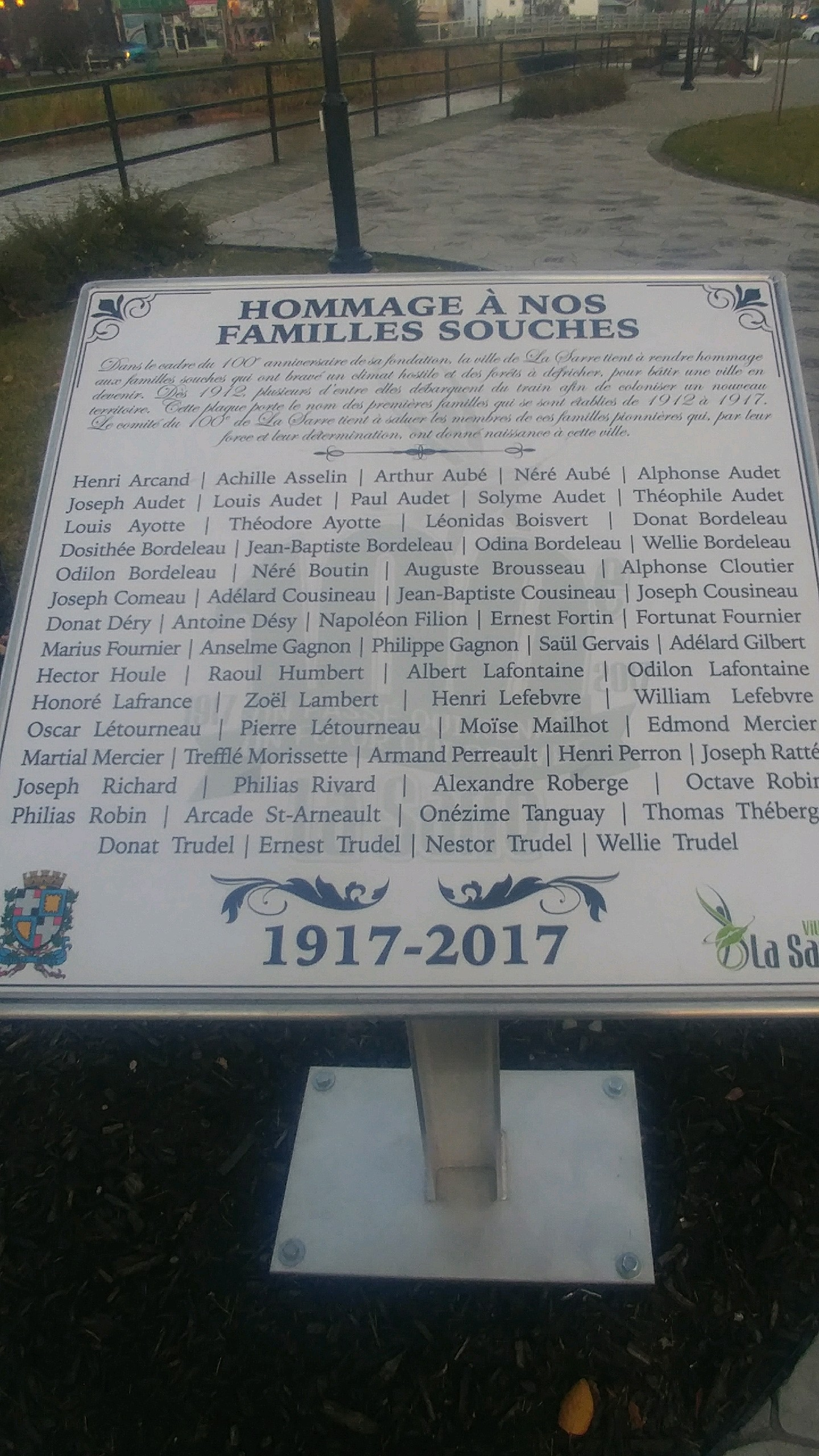 La Sarre tribute family tribute sign displayed in a park in downtown La Sarre